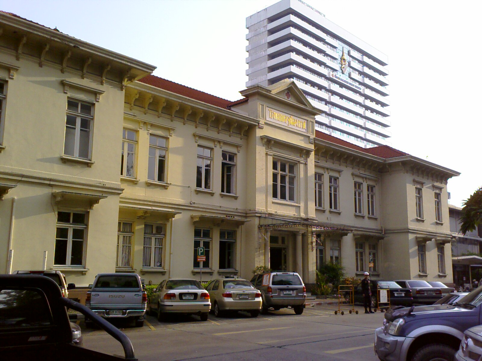 Administration Building, King Chulalongkorn Memorial Hospital